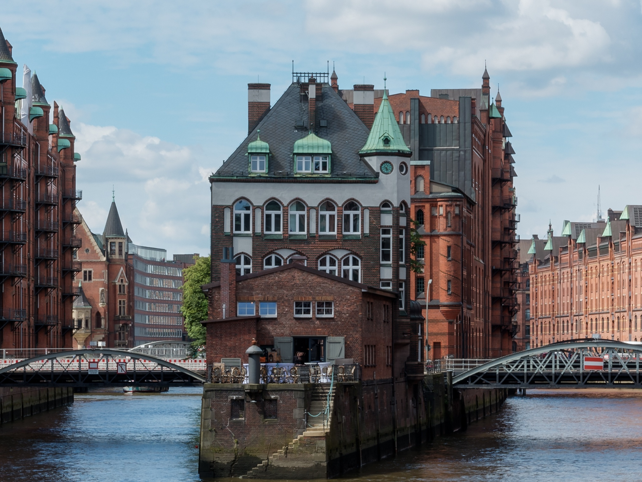 Wasserschloss in the Speicherstadt, Hamburg, Germany This is a photograph of an architectural monument.